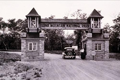 Historic Image of the East Gate of the Riding Mountain Park East Gate Registration Complex, 1934.